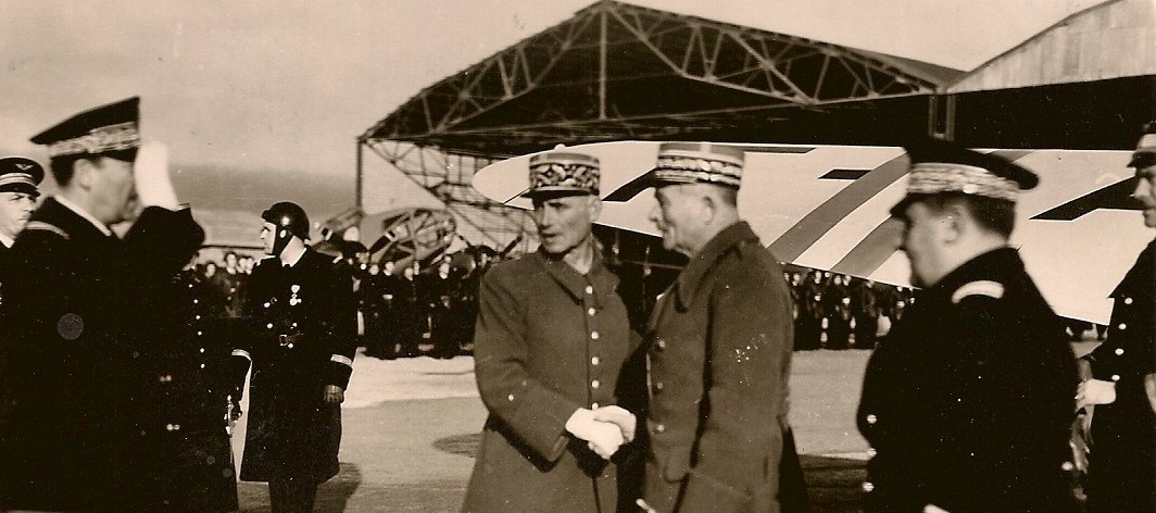 Crop of image showing an inspection visit of General Weygand to an air base